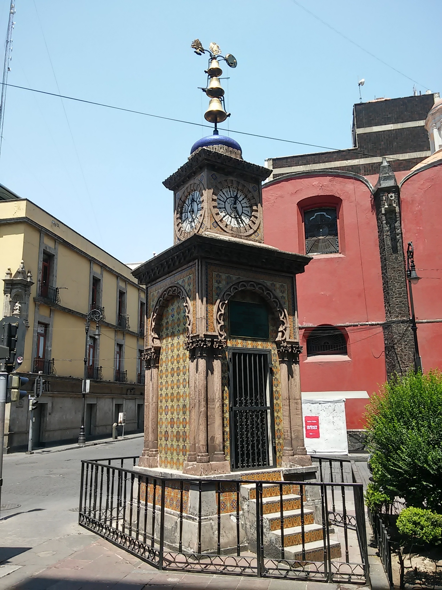 Reloj otomano en el centro histórico de la ciudad de México